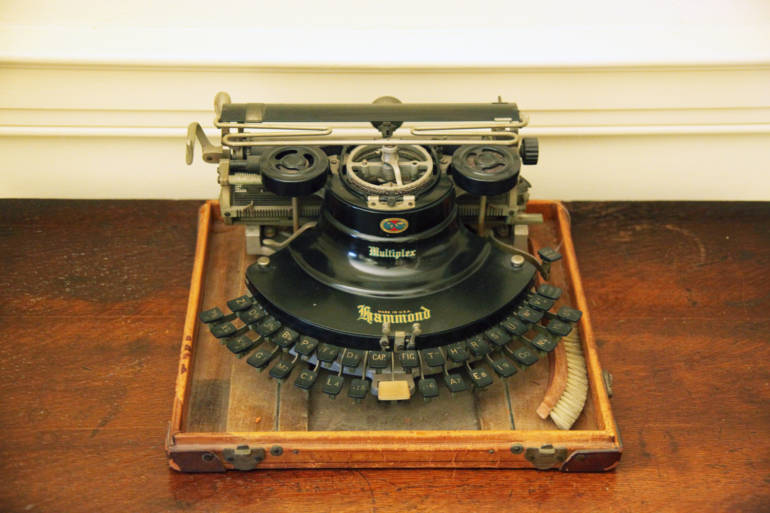 Woodrow Wilson's personal typewriter, located in the first floor office at Woodrow Wilson House. Wilson was the first president to personally own a typewriter, and he composed and typed most of his own letters. Wilson suffered from dyslexia, and did not learn to read until he was 10 years old. He taught himself shorthand as a means of compensating. The office is to your left just after you enter the home. Many of Wilson's mementos from his days at Princeton University (where he was a faculty member and later president of the college) are located here. All the furniture, mementos, and keepsakes in Woodrow Wilson House are originals. The books are not; Wilson donated all his books to the Library of Congress. These books are the same that existed in Wilson's library (right down to the same date and edition), but were not owned by Woodrow Wilson. Woodrow Wilson House is located at 2340 S Street NW in Washington, D.C . After Wilson's second term as president ended on March 4, 1921, he moved into this house with his wife and two servants. Crippled by the stroke that ended his presidency, Wilson died in the house on February 3, 1924.